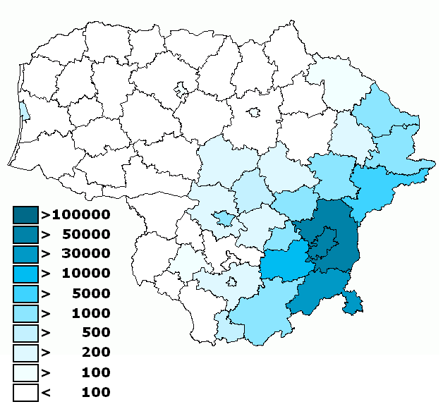 Polish minority in Lithuania - by municipalitiesLietuvių: Lenkų mažuma pagal savivalybes